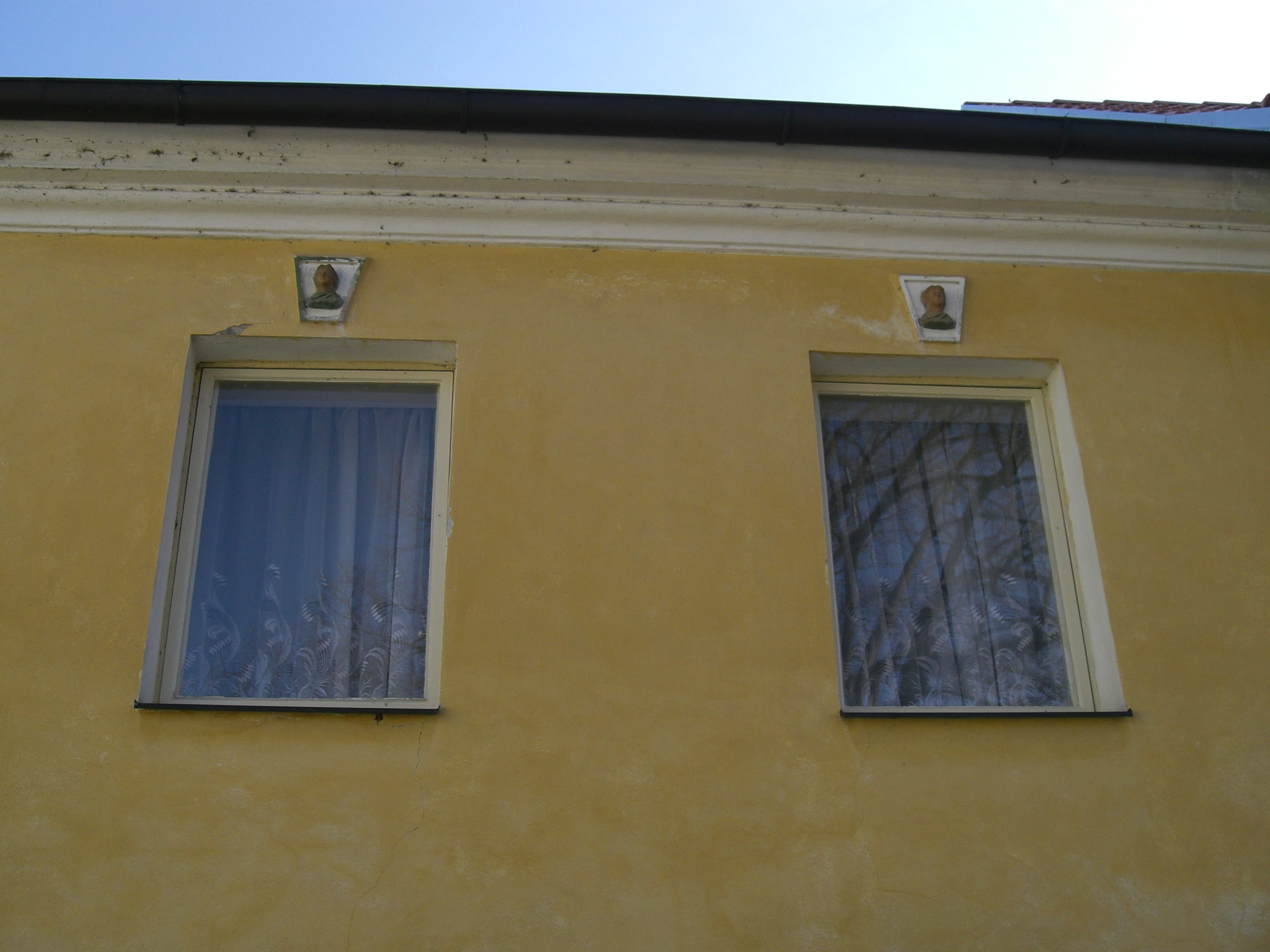 Two dolly near Putimská gate in Písek which are famously know because of folk-song Když jsem já šel tou Putimskou branou.